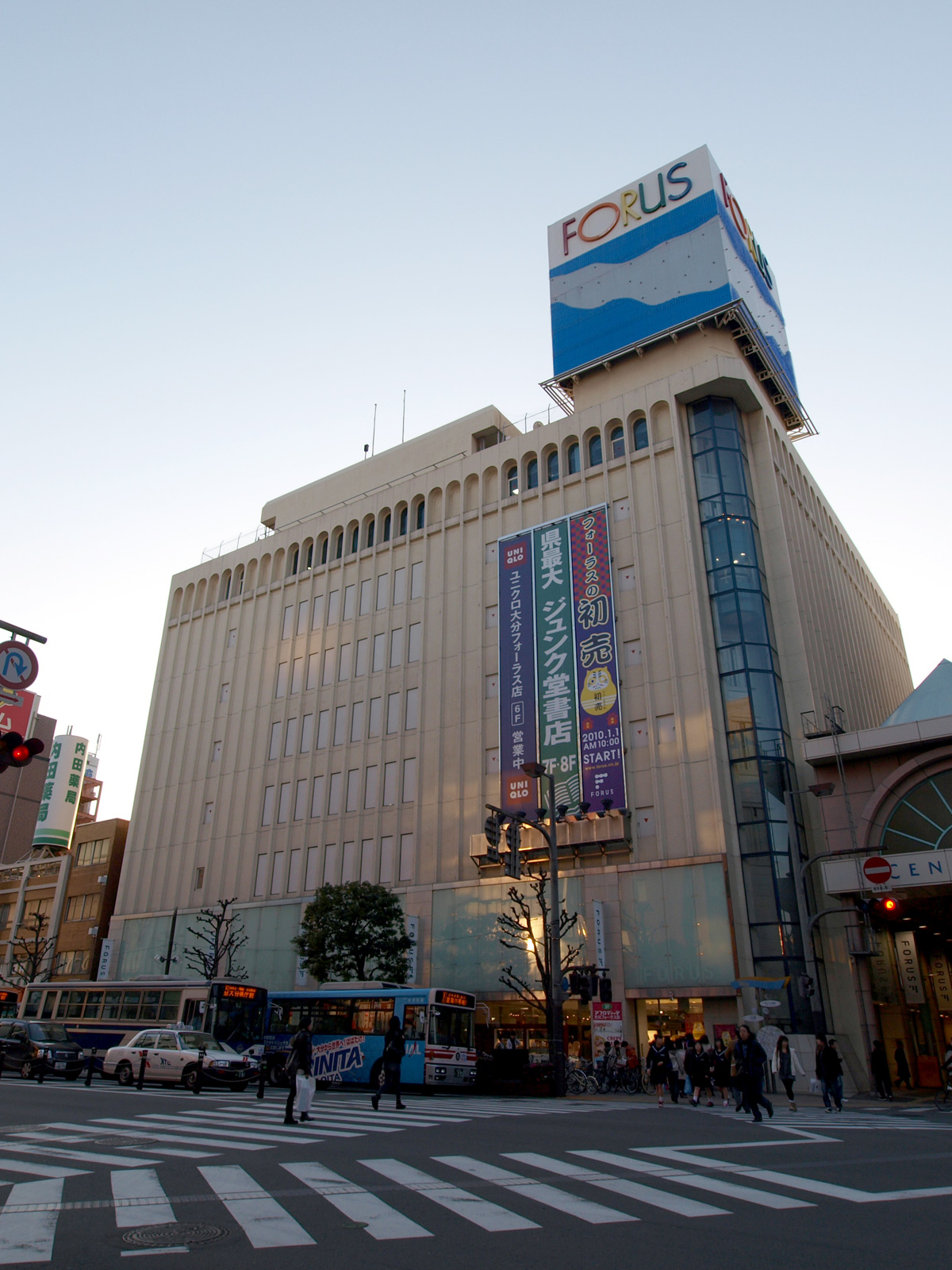 Oita Forus, Oita City, Oita, Japan